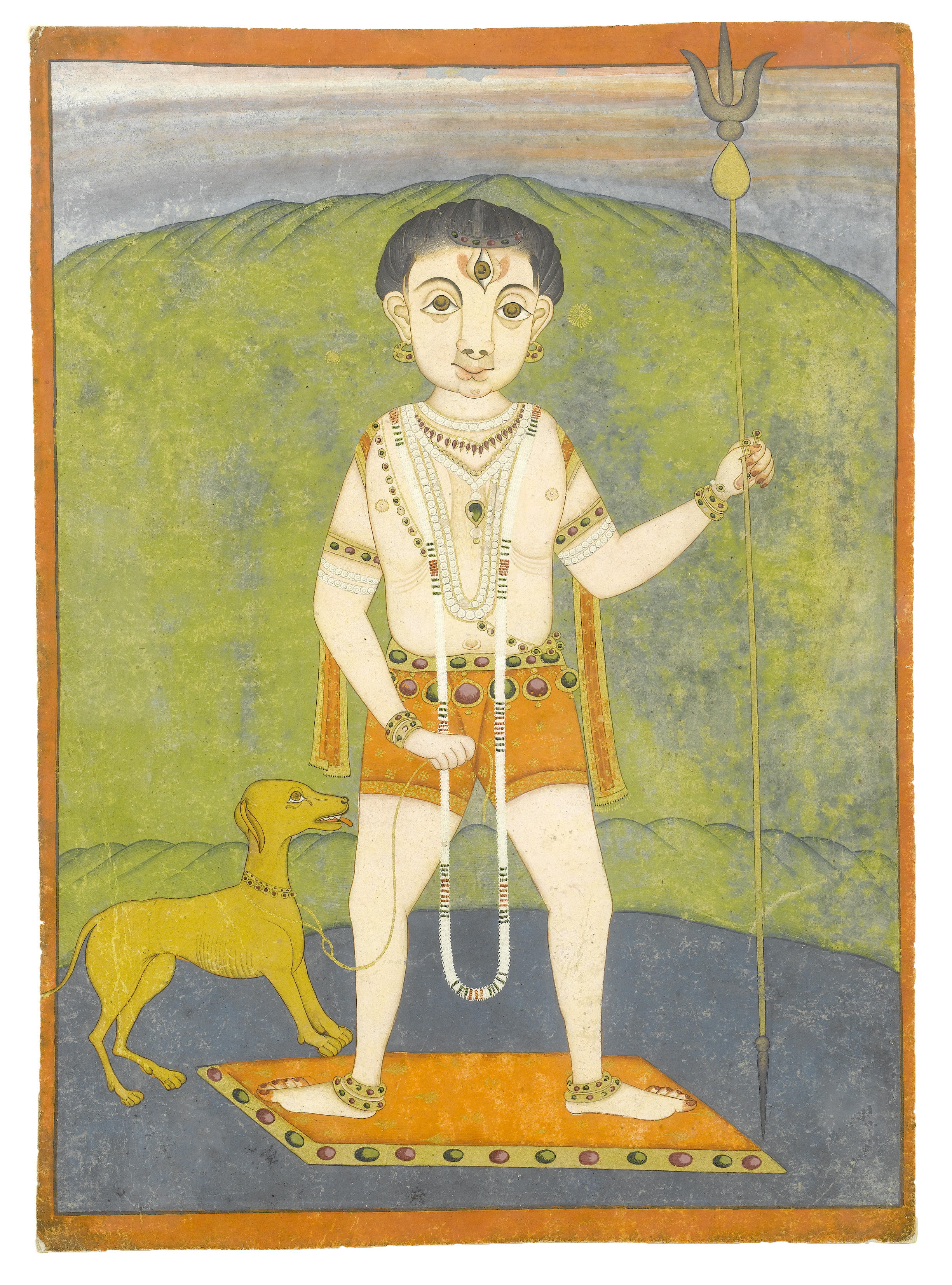 Shiva holding a trident with a dog at his feet